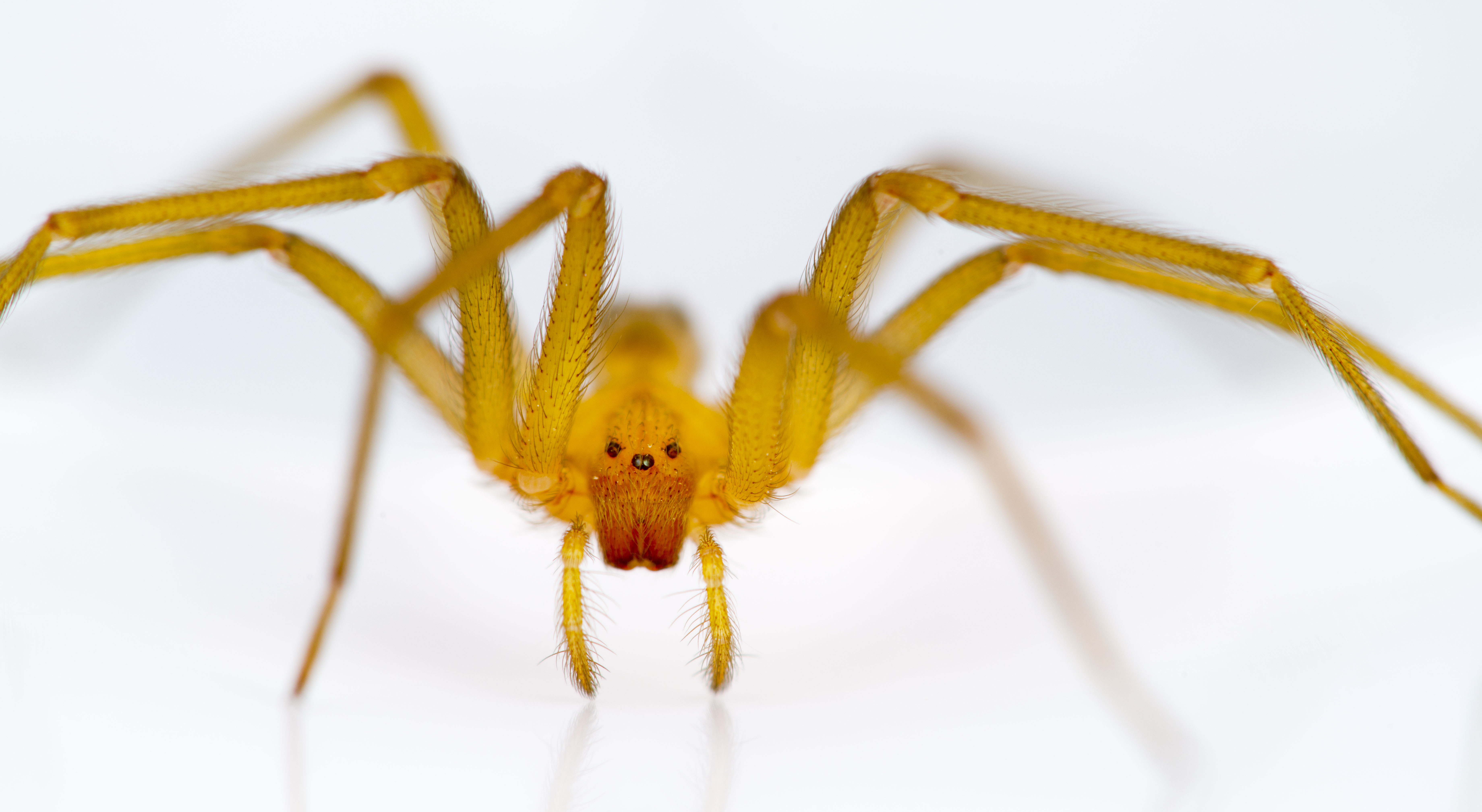 Immature male Chilean recuse spider, shot in the Finnish Museum of Natural History in Helsinki. There is a population living in that very building (not anywhere else in Finland). Photograph taken on October 12, 2016.